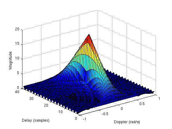 Ambiguity function plot for a length 20 square pulse.